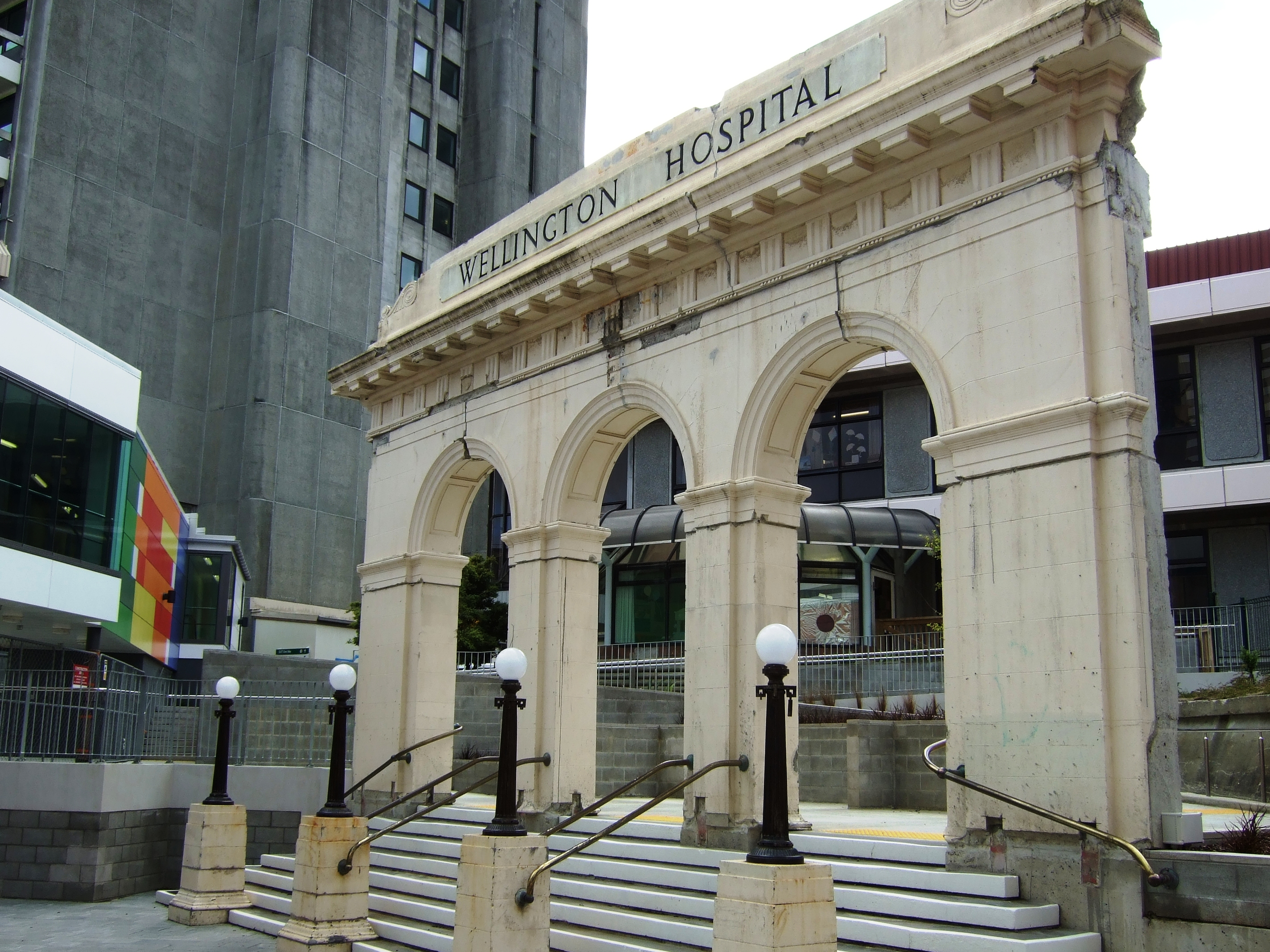 Frontage of demolished old Wellington Hospital in New Zealand